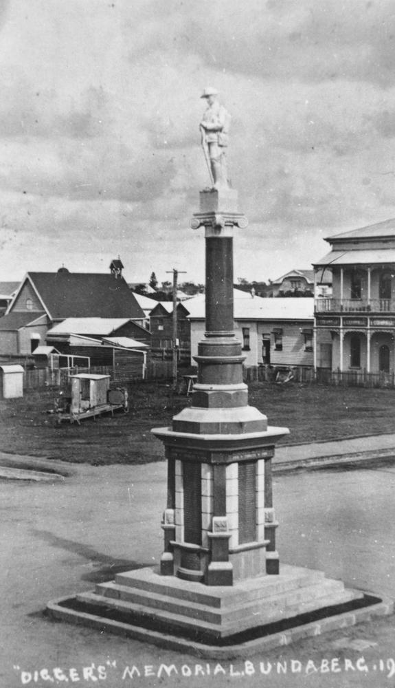 Diggers' Memorial, Bundaberg, 1921 Designed by local architect F.H. Faircloth, the Fallen Soldiers' Memorial was completed in July 1921 when the Digger was placed on the column. The Dedication ceremony took place on Saturday, 30th July, 1921.